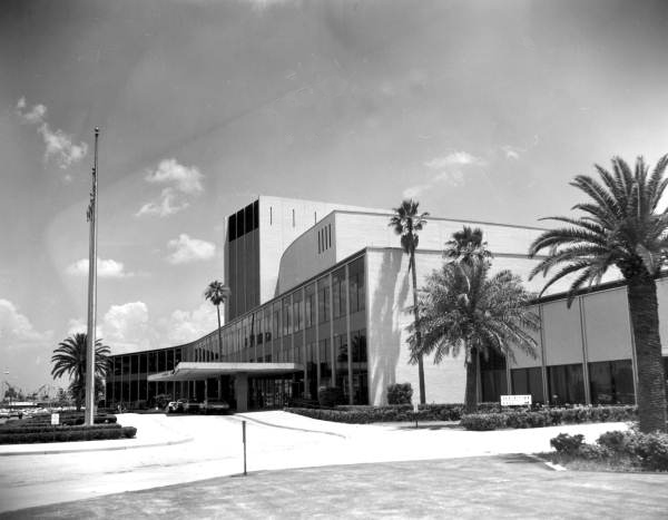 Civic Auditorium (Now the Times-Union Center) in Jacksonville in 1969.